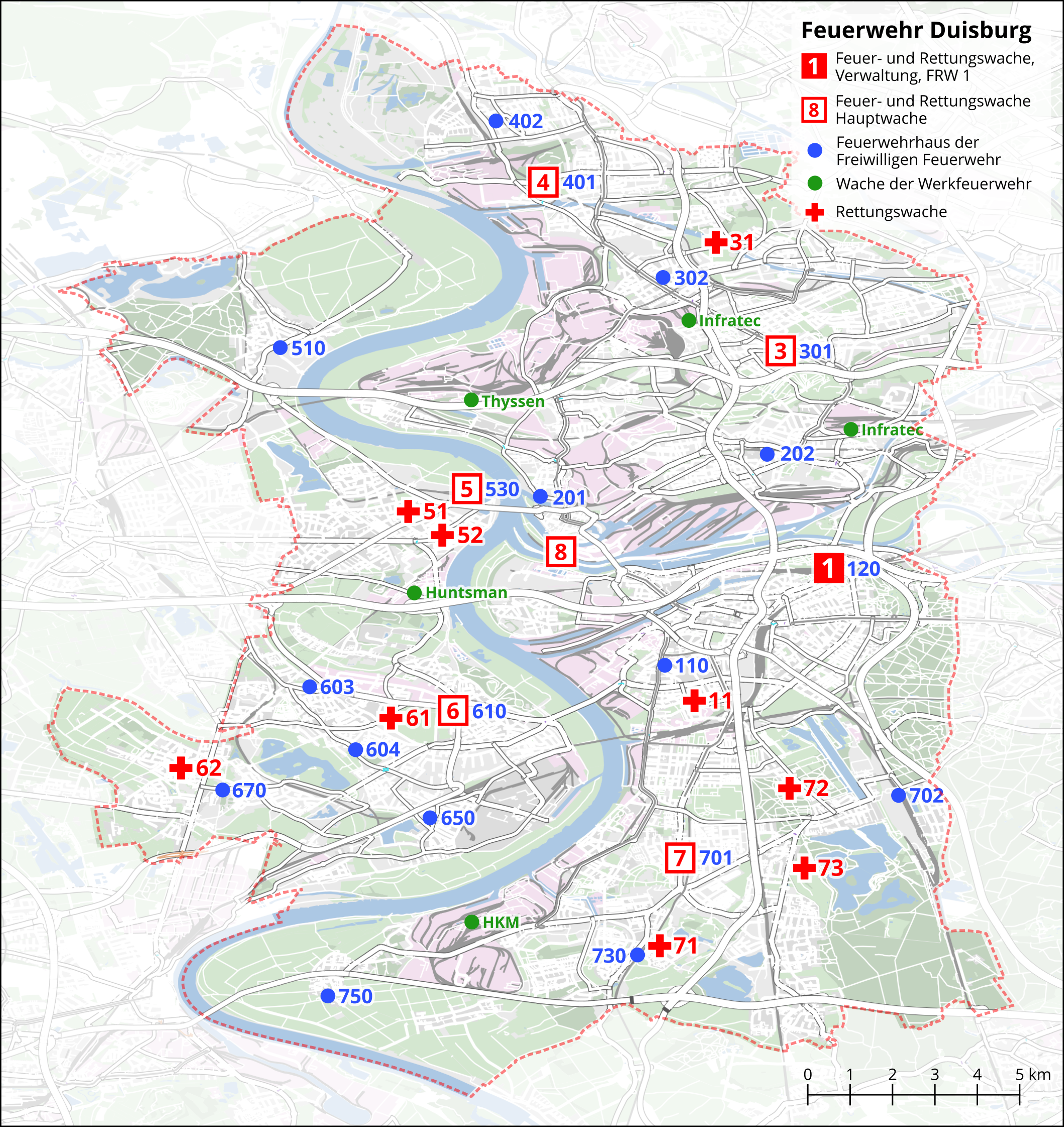 Map of the divisions of the Fire Brigade Duisburg.